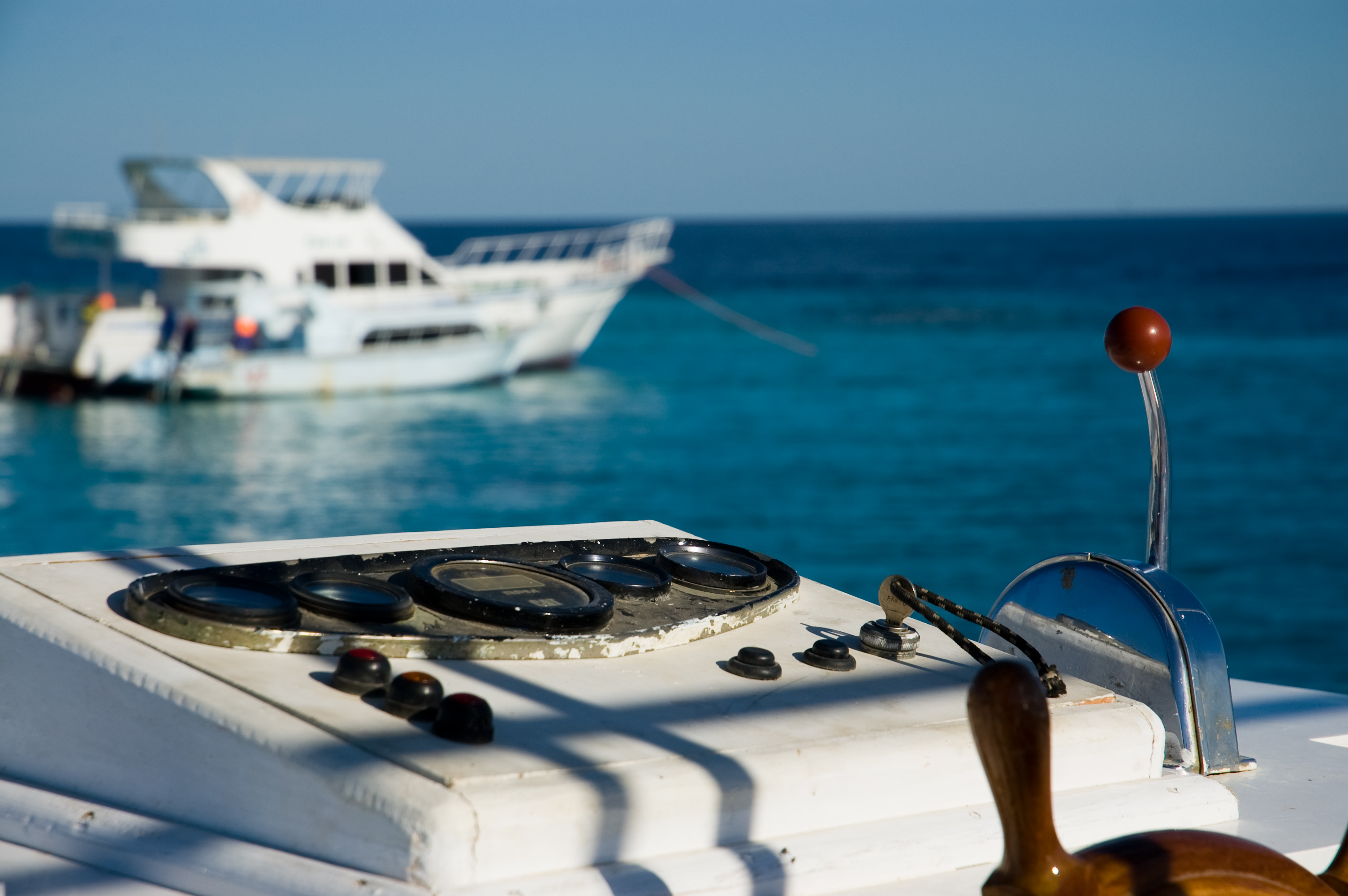 View from Safaga